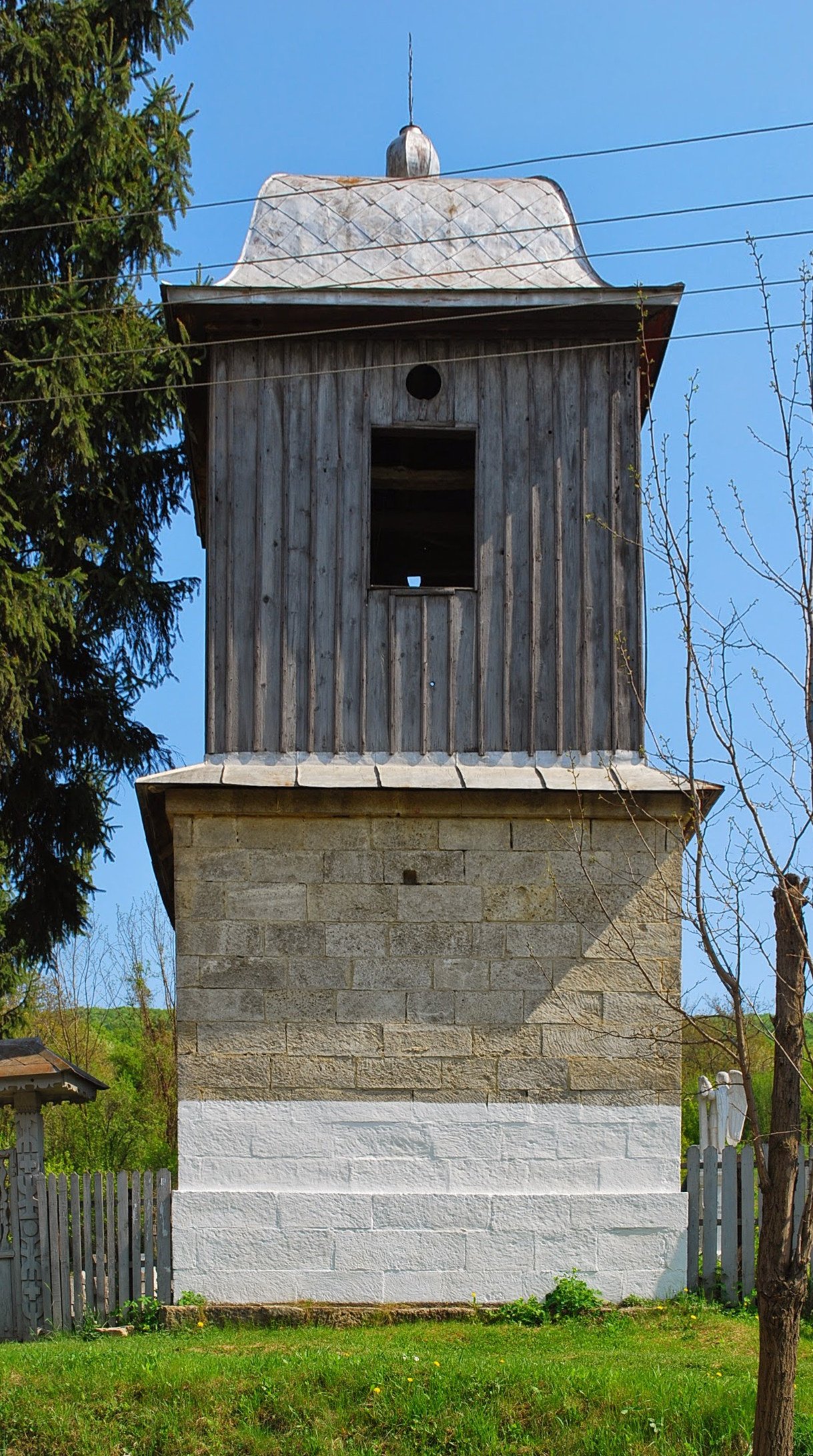 Belfry at the church of the Presentation of the Virgin Mary in Ciuta, Măgura commune, Buzău County, RomaniaRomână: Clopotnița bisericii „Intrarea în Biserică a Maicii Domnului” din Ciuta, comuna Măgura, județul Buzău, România 02